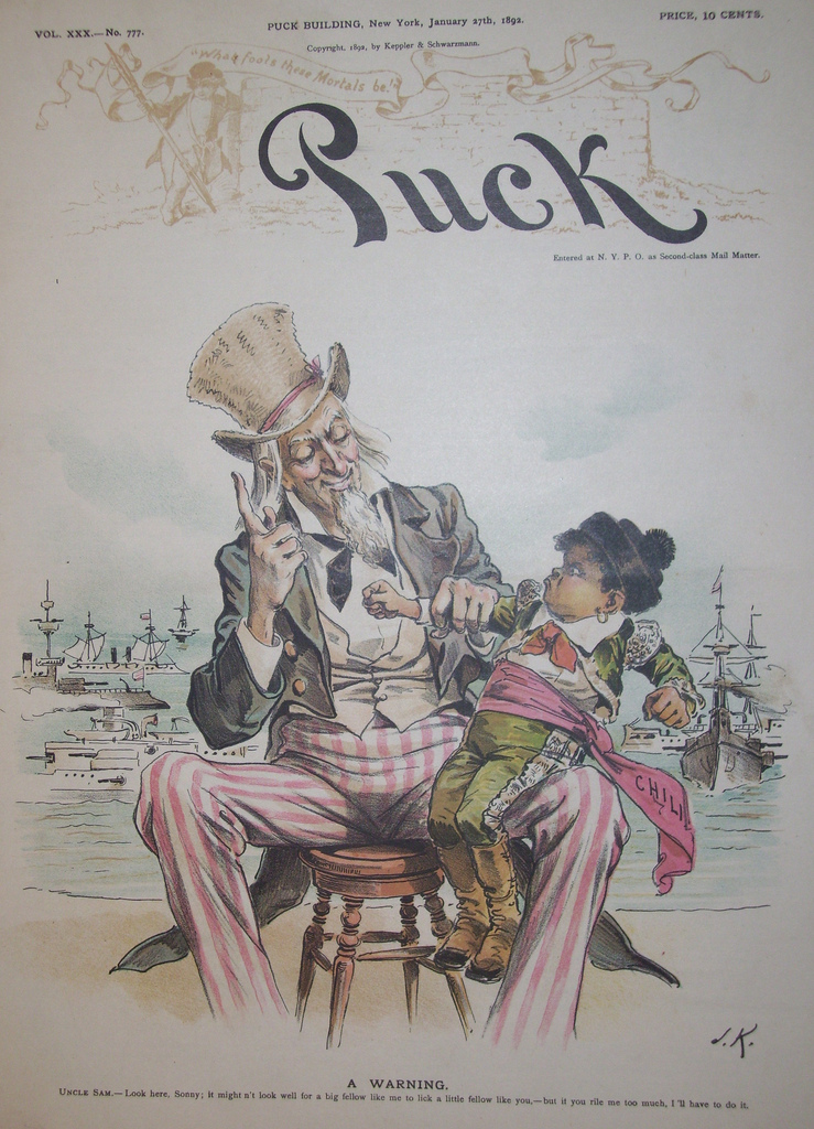 A Warning. Uncle Sam. - Look here, Sonny; it might n't look well for a big fellow like me to lick a little fellow like you,- but if you rile me too much, I'll have to do it.